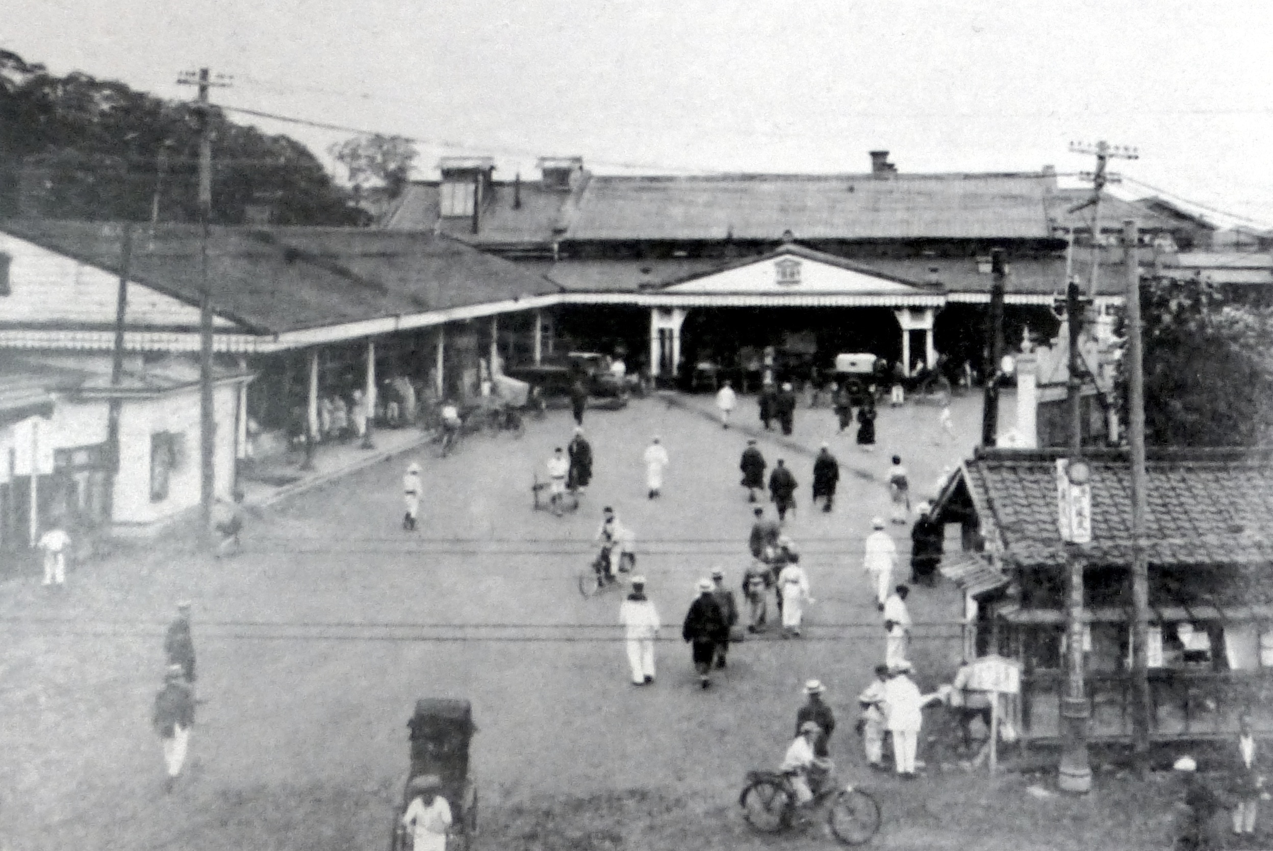 The original Ueno Station building, south exit